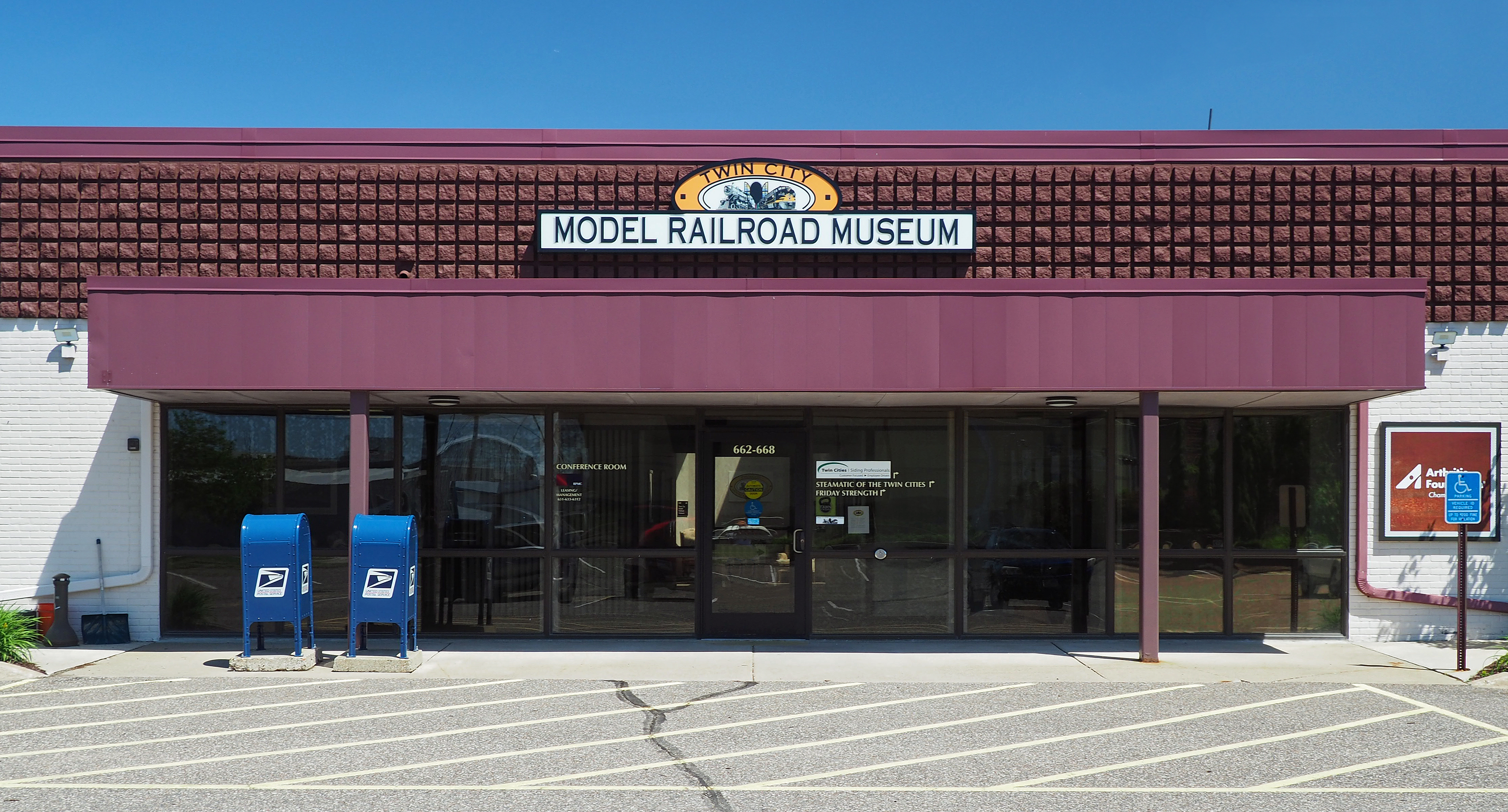 Exterior entrance of the Twin City Model Railroad Museum, 668 Transfer Rd, Saint Paul, Minnesota, USA. Viewed from the west.